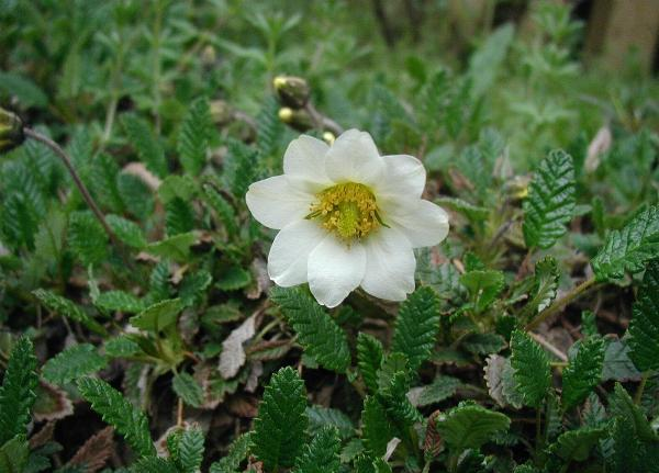 Dryas octopetala: Flower and leaves.